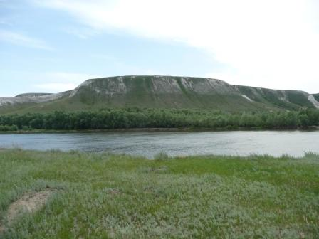 Plateau Ventsy. 252 meters above sea level. Natural Park "Don", Volgograd Region.